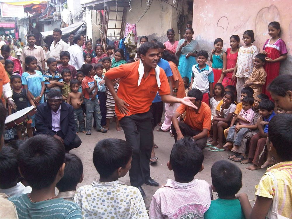 Street theater. From the GiveWell visit to NGO PSI in the Dharavi slum in Mumbai, India. August-November 2010. More information.